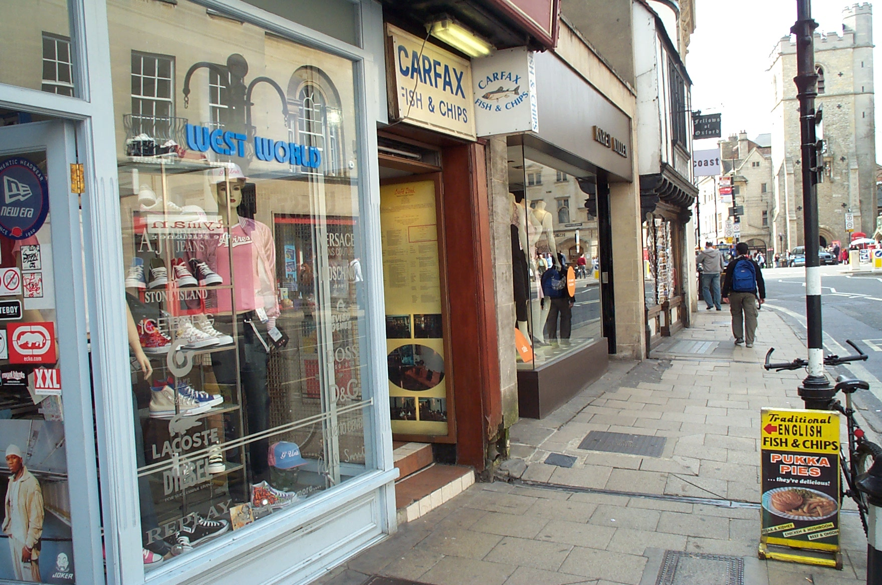 Carfax fish and chips, Oxford, 2005-04-03. Copyright © 2005 Kaihsu Tai.